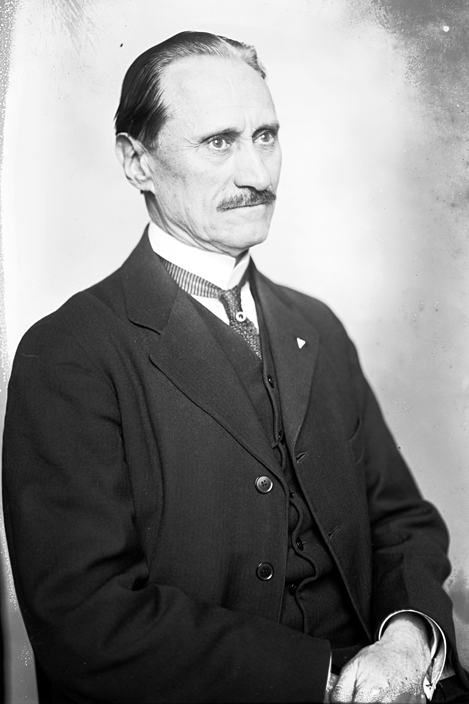 Isaac Clinton Kline, US Representative from Pennsylvania